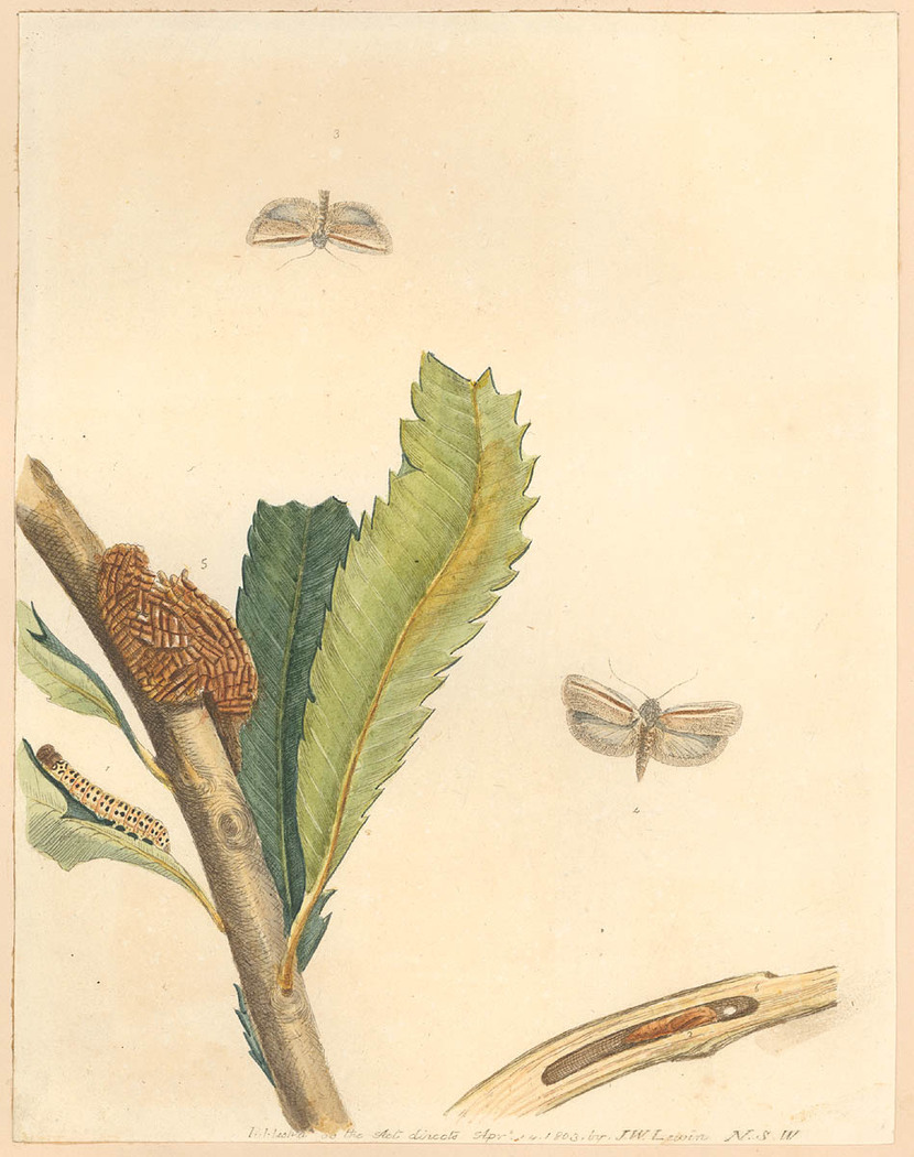 Xylorycta strigata